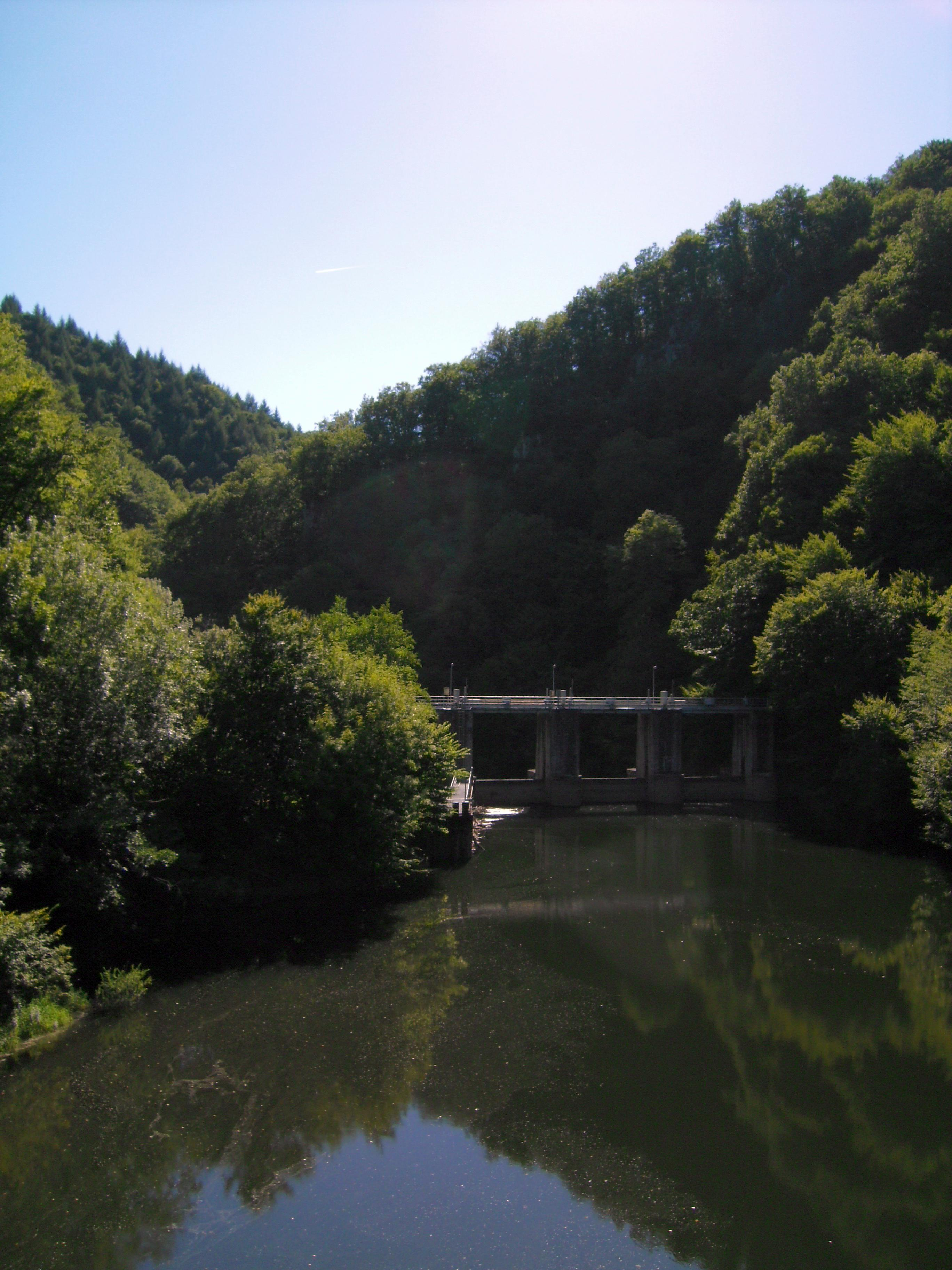 Gorge of the Cere, showing barrage, near Lamativie, Correze/Lot, FranceCymraeg: Afon Cère ger Lamativie.